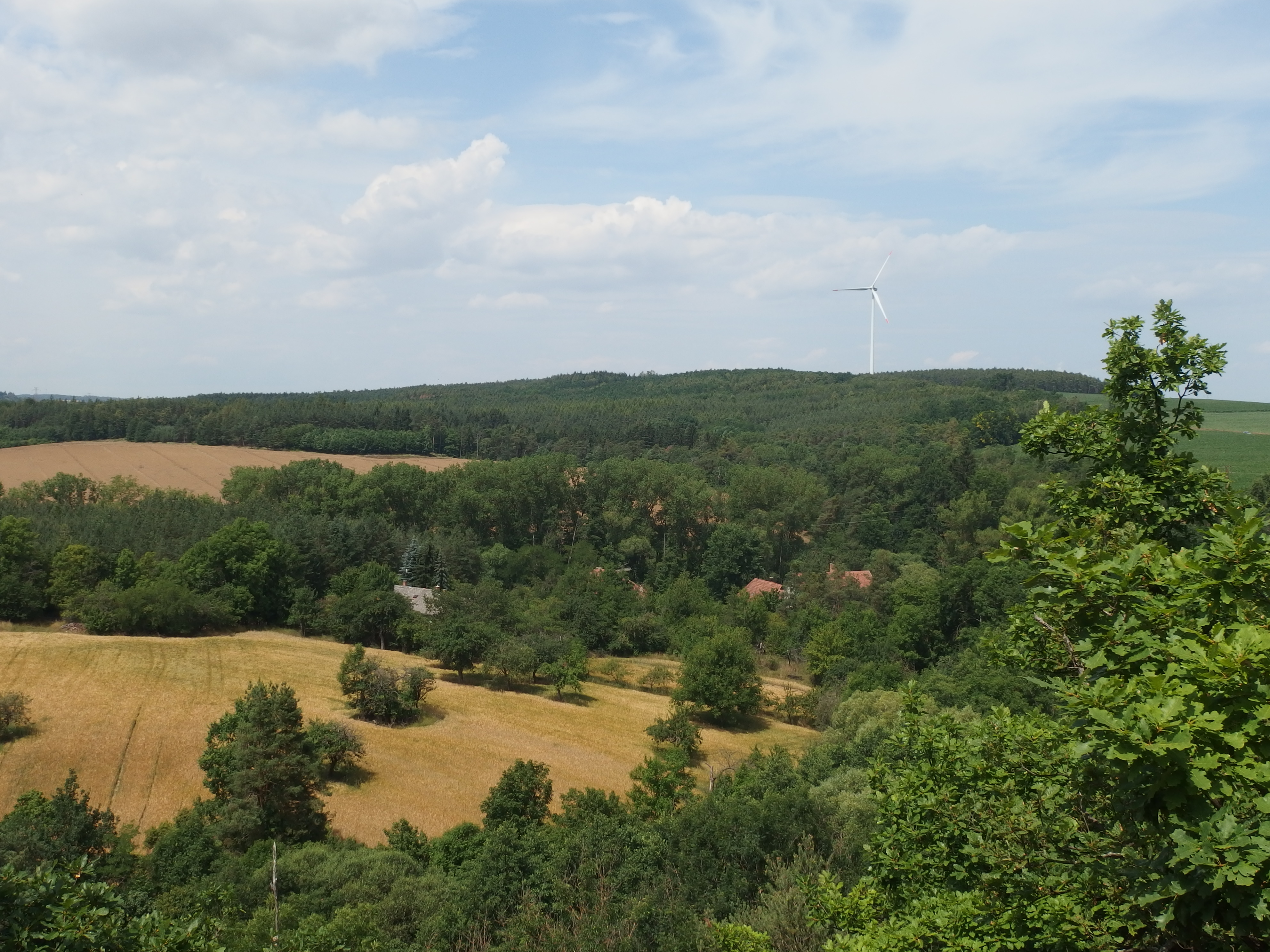 Čermákovice, Znojmo District, Czech Republic.